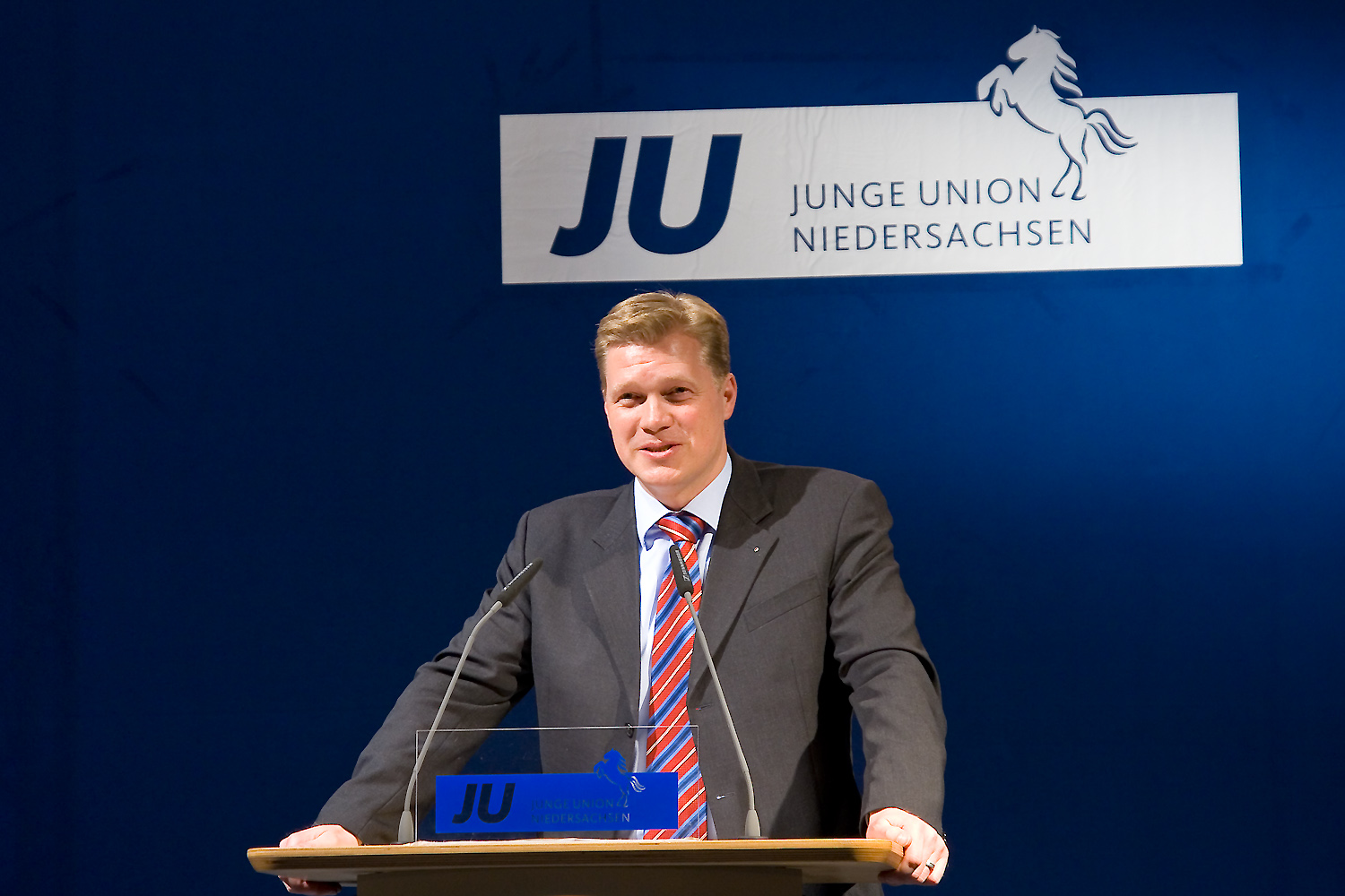 Ulf Thiele, German politician (Christian Democratic Union of Germany), member of parliament of Lower Saxony and representative of the constituency 91 (Leer).